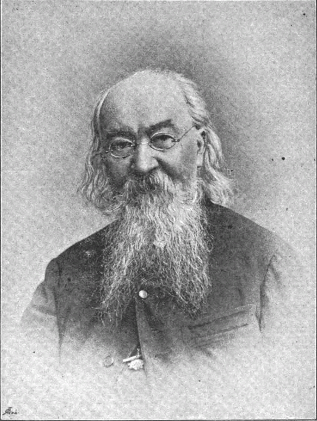 Rudolf Müller (1816-1904), Austrian painter